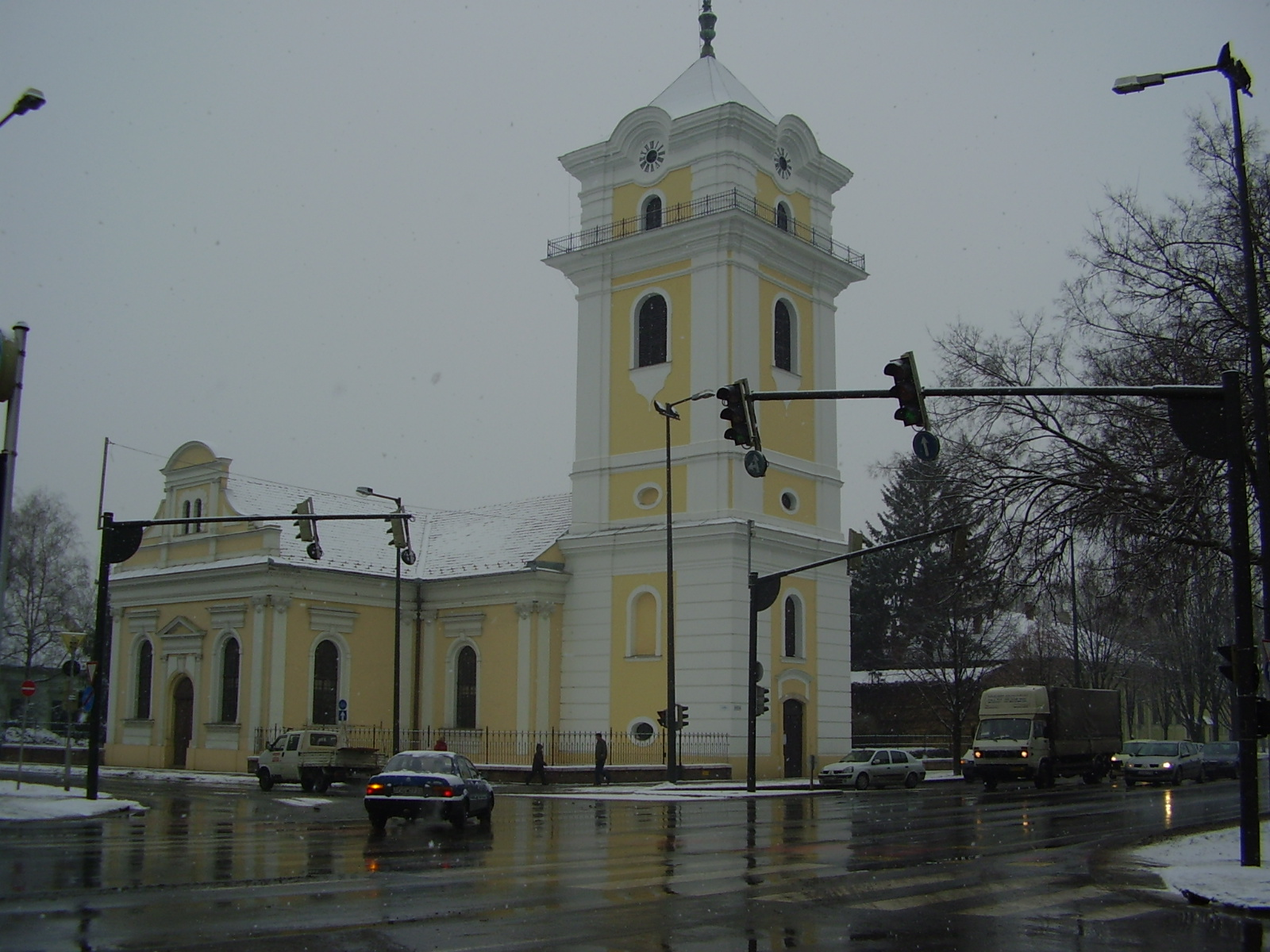 The little evangelic church in Békéscsaba